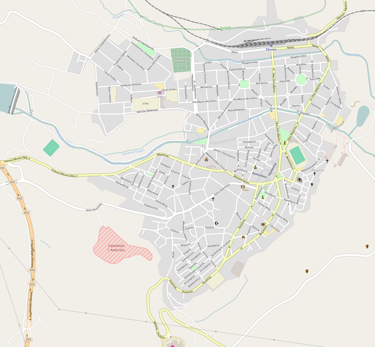 OpenStreetMap - Map of Edessa